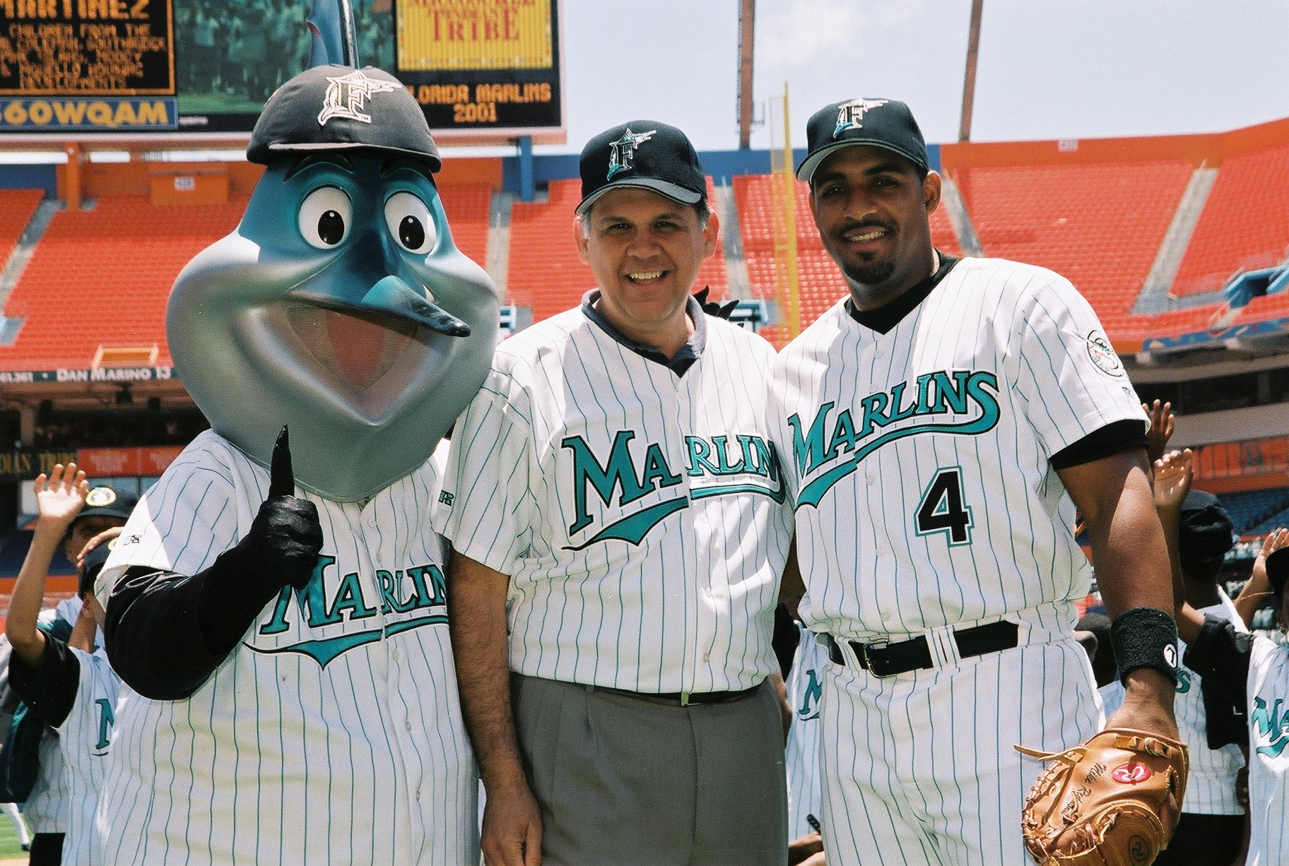 Secretary Mel Martinez on visit to Miami, Florida for speeches, meetings, tours, including appearance at breakfast hosted by Cuban-American leaders; and appearance at Pro Players Stadium to throw out the first pitch at a Florida Marlins baseball game, to meet and greet group of 40 Miami Housing Authority children, and to attend a Catholic Charities USA reception.